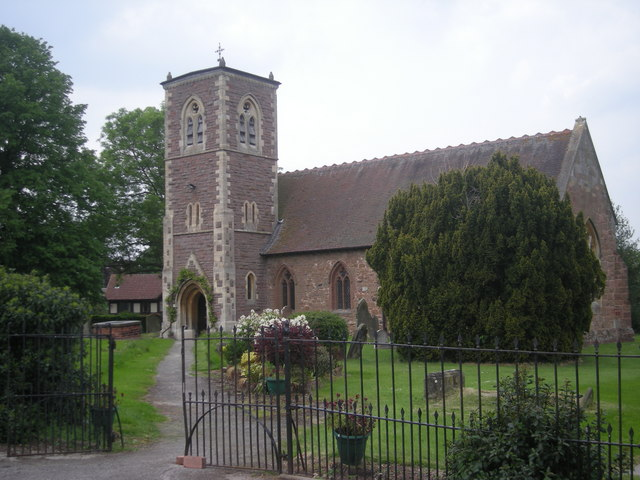 Bobbington church